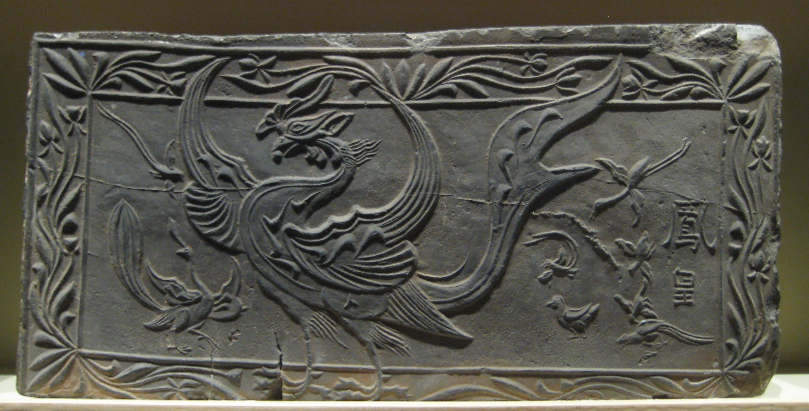 Brick relief depicting a phoenix, from the Southern Dynasties. Unearthed at Xuezhuang, Dengxian, Henan Province, 1958.